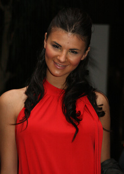 Miss Malta 2007 - Stephanie Zammit in Miss World 2007, Sanya, China